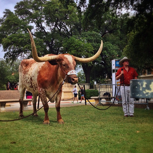 Bevo hanging out at #tribunefest.